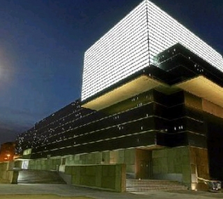 Vista del Palacio de Congresos